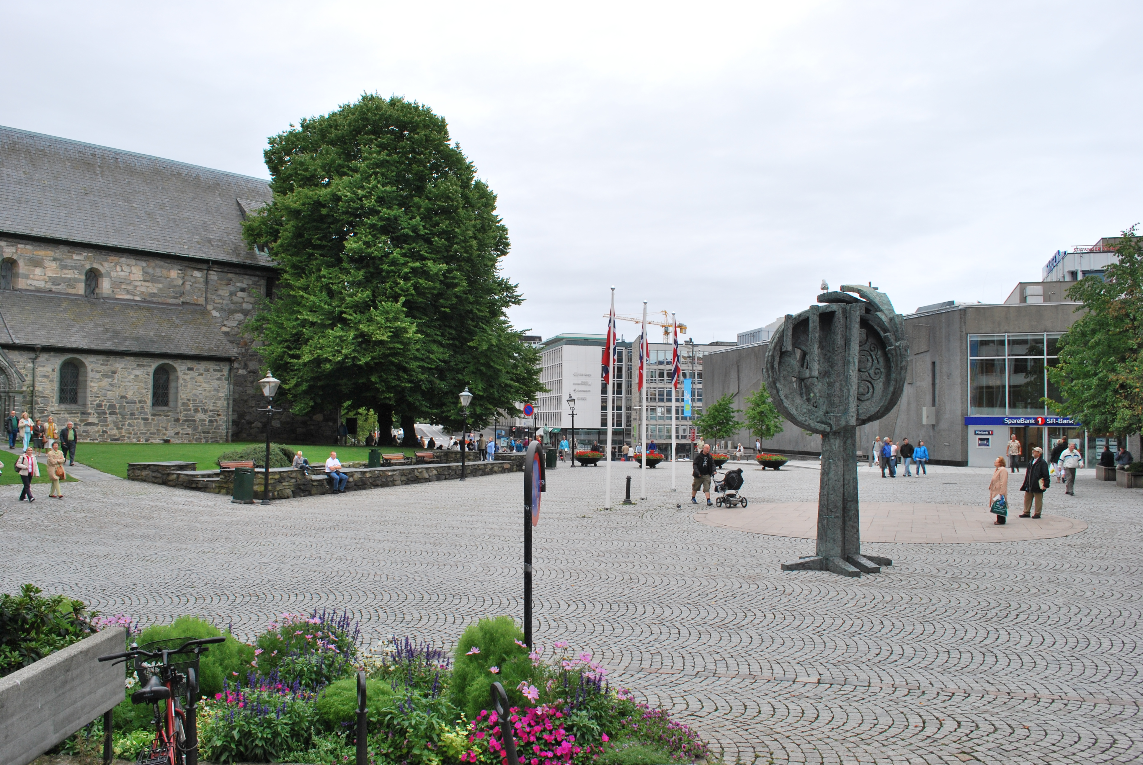 Cathedral Square (Norw. Domkirkeplassen), Stavanger, Norway